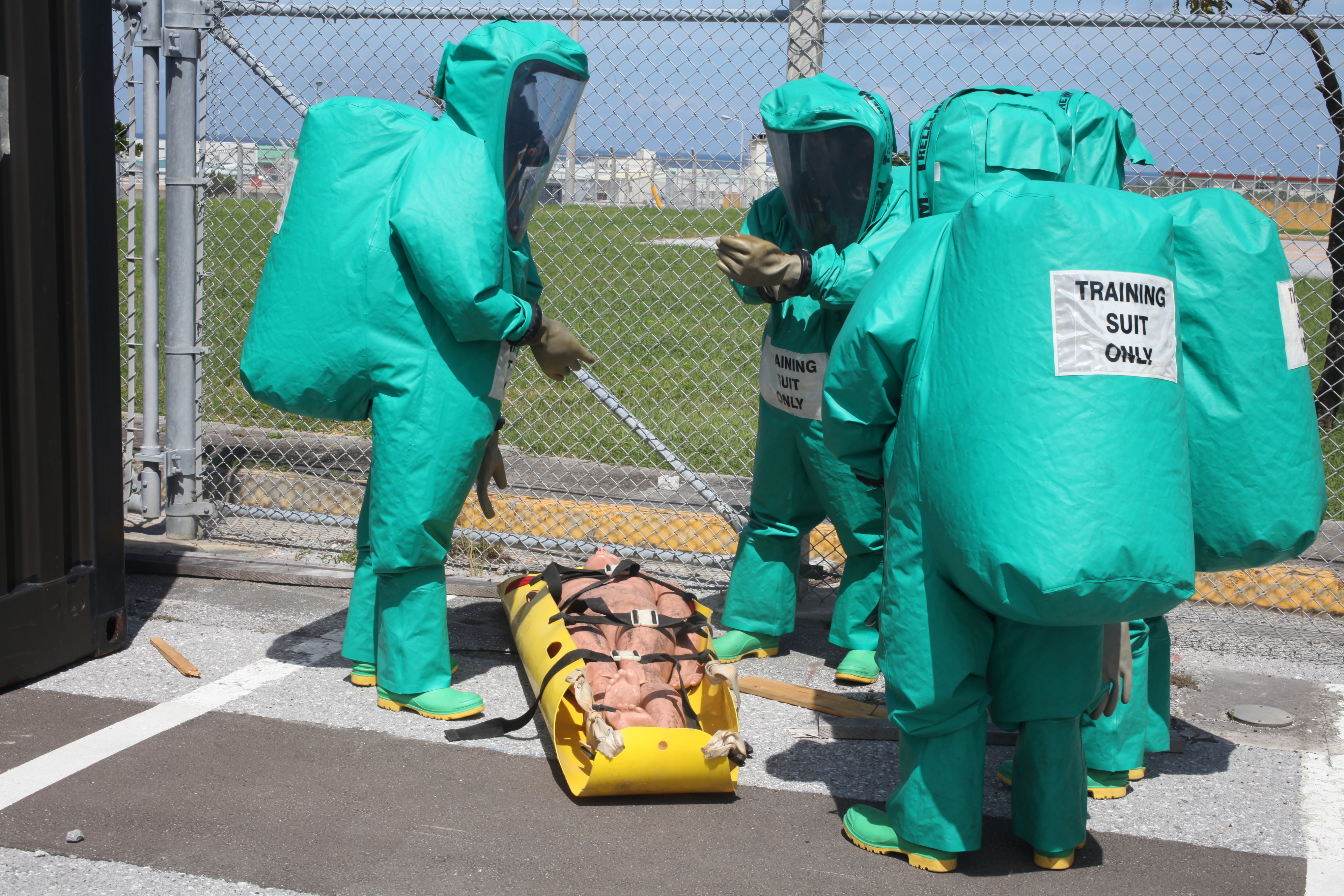 Marines prepare to evacuate a simulated casualty during a chemical, biological, radiological and nuclear hazardous material response drill at Camp Kinser Aug. 10. The purpose of the training was to ensure Marines maintain military occupational proficiency when dealing with hazardous material. The Marines are with Combat Logistics Regiment 37, 3rd Marine Logistics Group, III Marine Expeditionary Force.